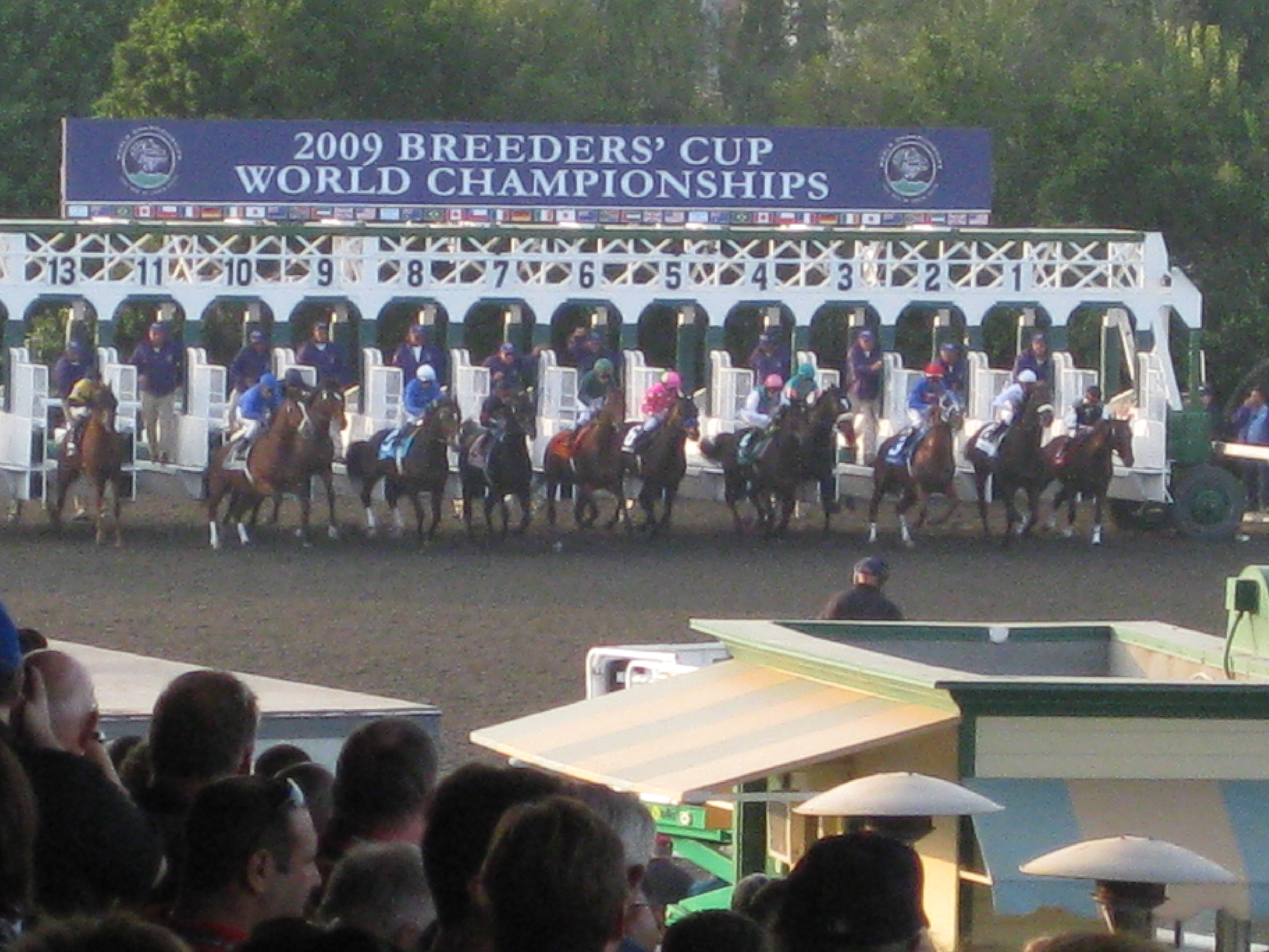 They're off! Zenyatta broke poorly and trailed the field in dead last position for the majority of the race. Effortlessly uploaded by Eye-Fi